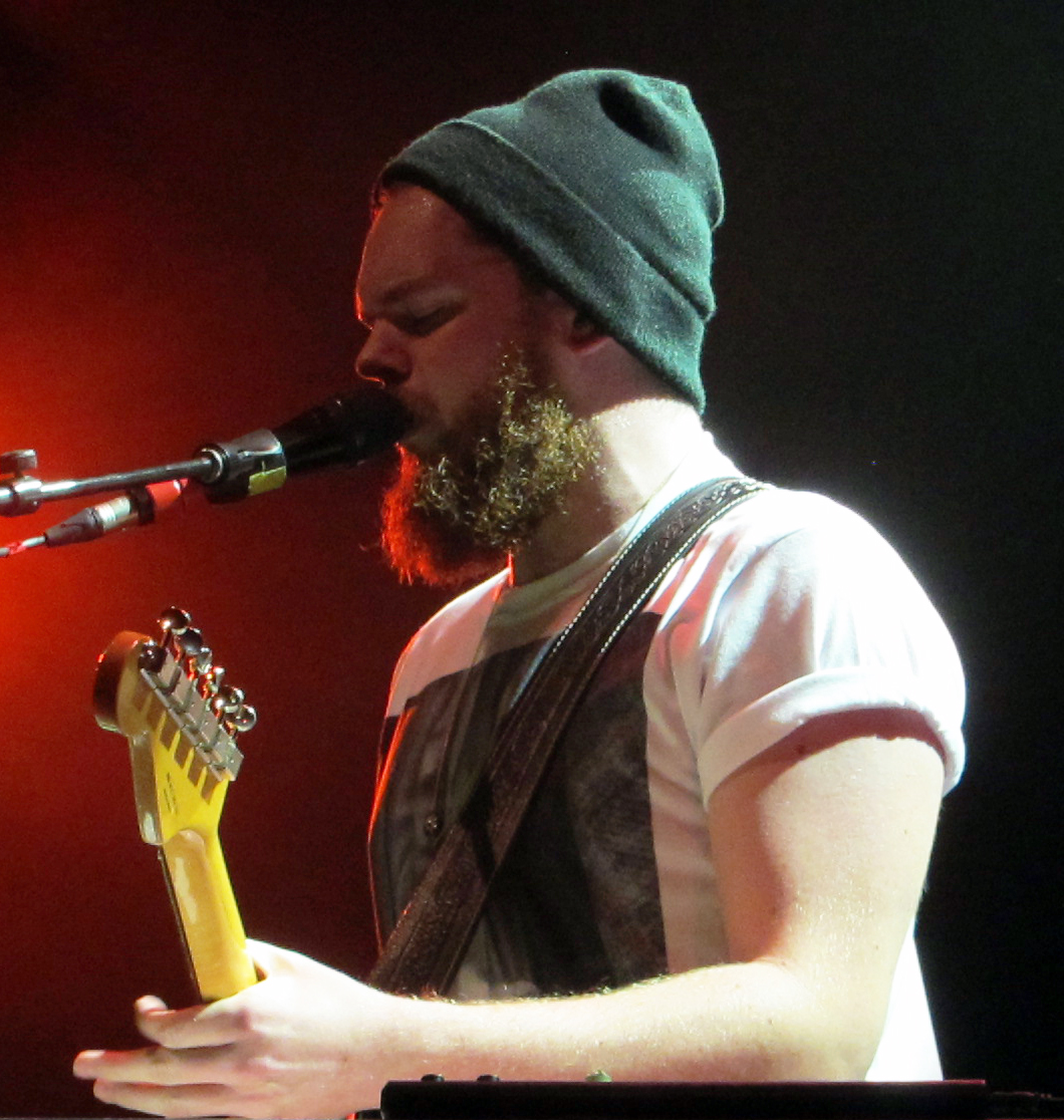 Jack Garratt in Chicago at Park West, 13 October 2015